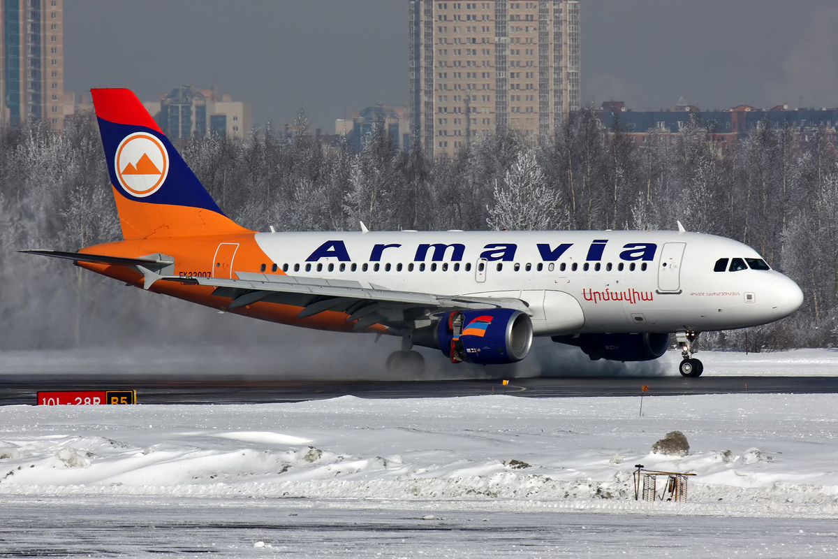 An Armavia Airbus A319-111 at Pulkovo Airport (LED / ULLI)